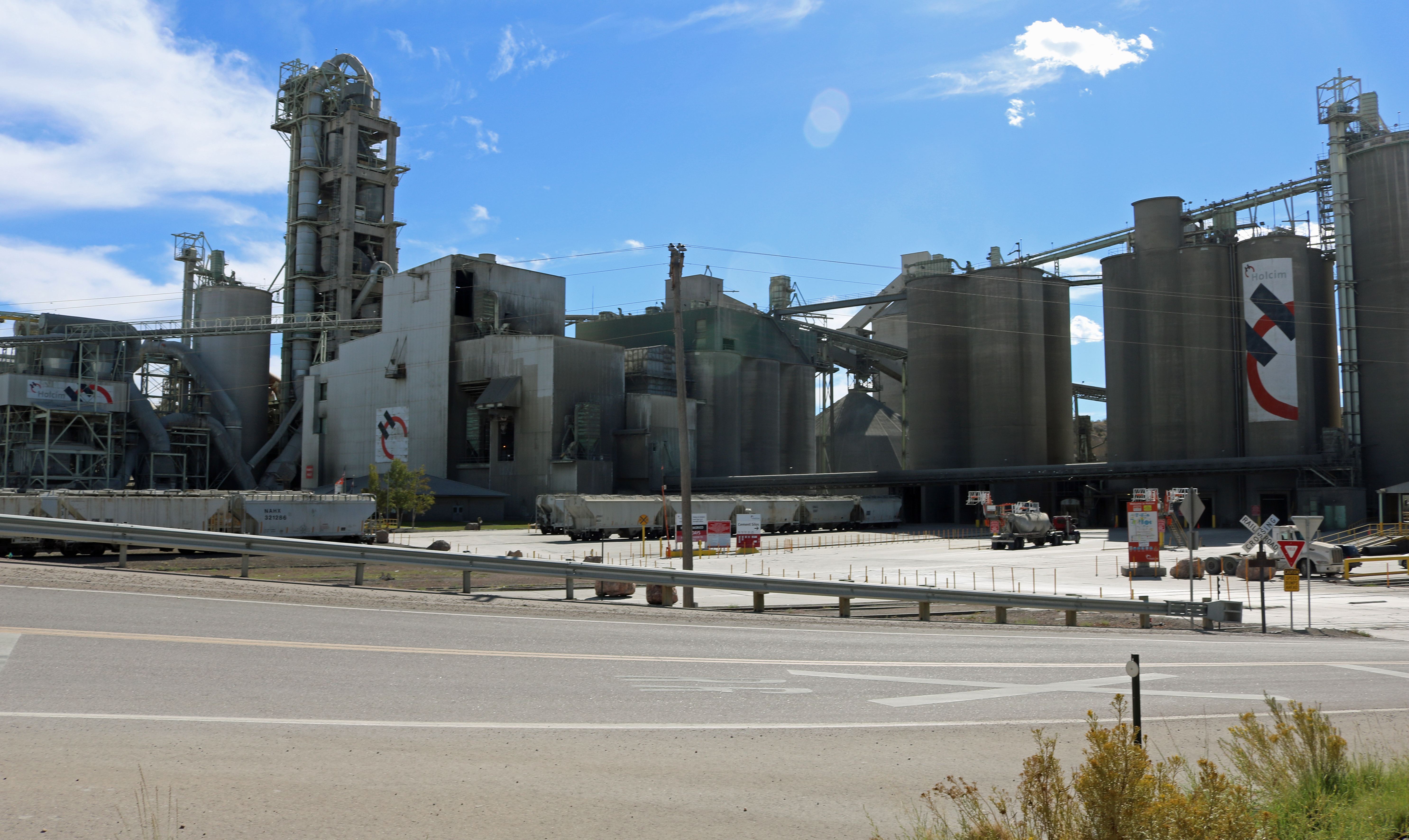 Holcim's Portland Cement Plant, located at 3500 State Hwy 120 in Portland, Colorado 81226. Portland is in Fremont County.